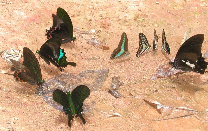 Butterflies mud puddling. 4 peacocks, 1 yellow helen or red helen, 1 Common blue bottle and 3 common jays taken by דליק כלבלב on a trak in thailand